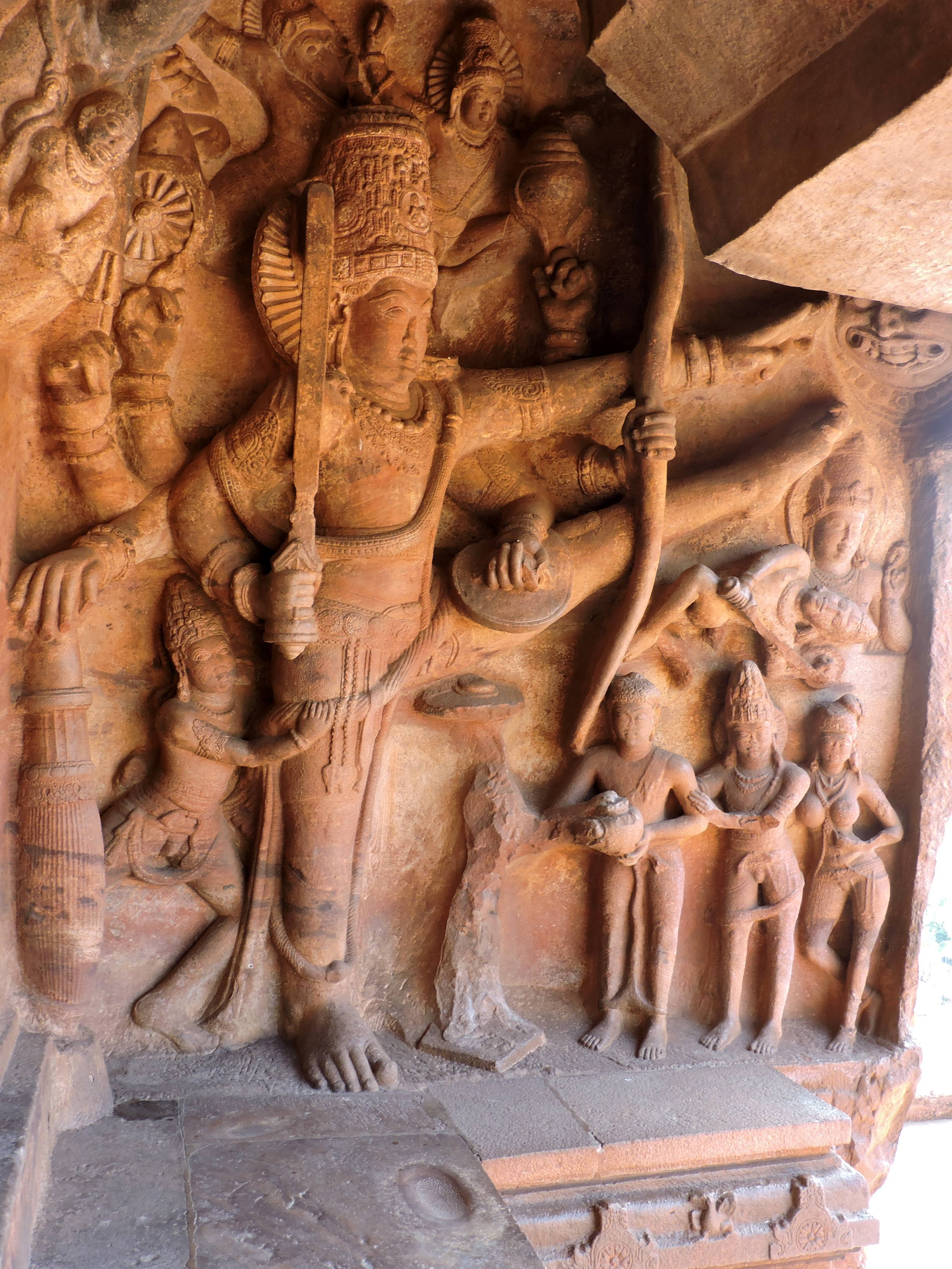 Vamana (dwarf) avatar as seen in Badami caves